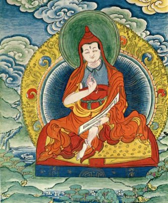 Vairotsana, famous eighth century Tibetan scholar